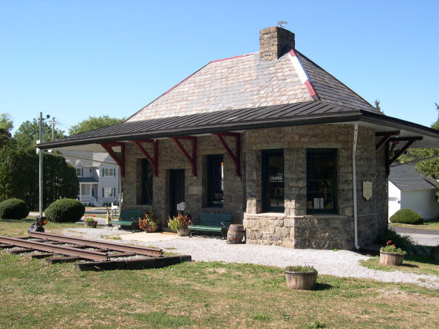 Central Railroad of New Jersey Califon station museum. Photo by Jim Irwin September 24, 2005.